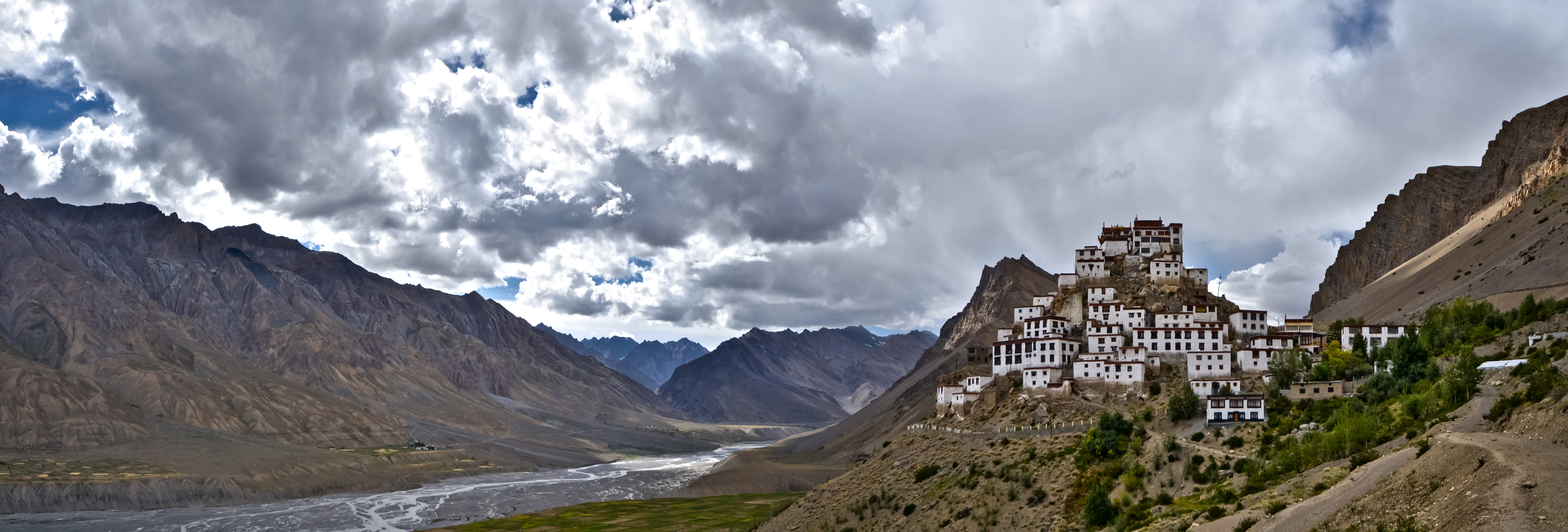 Peace in the Himalayan Valley. 1000 year old Key monastery, Spiti Valley, Himachal pradesh